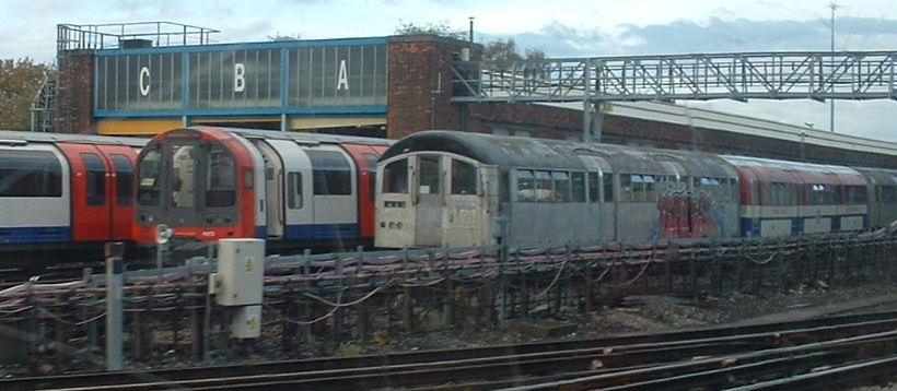 Central line 1992 stock (left) and 1962 stock side by side at Hainault Depot (the older train in use as Departmental stock)